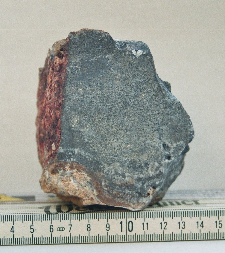 Cobalt ore from Ore mountains, Schneeberg, Saxony, Germany.